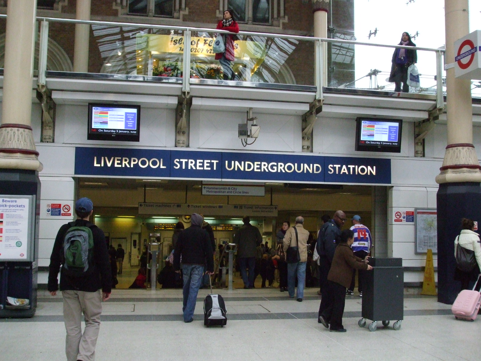 Entrance to Liverpool Street Underground station on the main line station concourse